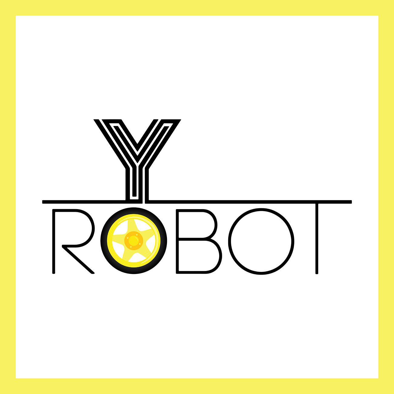 Logo Yrobot